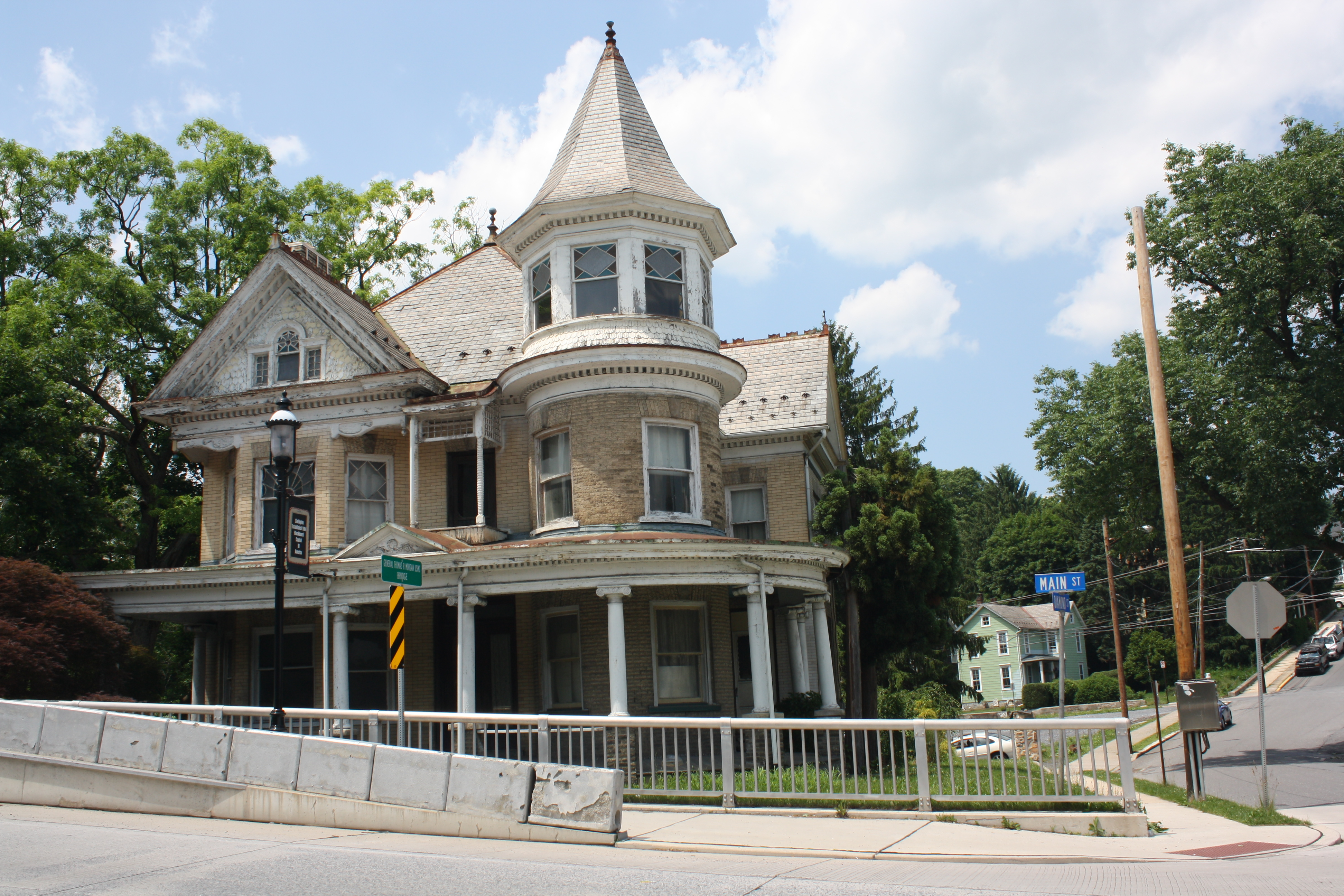 Alfred Kern House (856 Main Street), corner of Main and Diamond Sts., Slatington, Pennsylvania (Slatington Historic District). View from Main St.